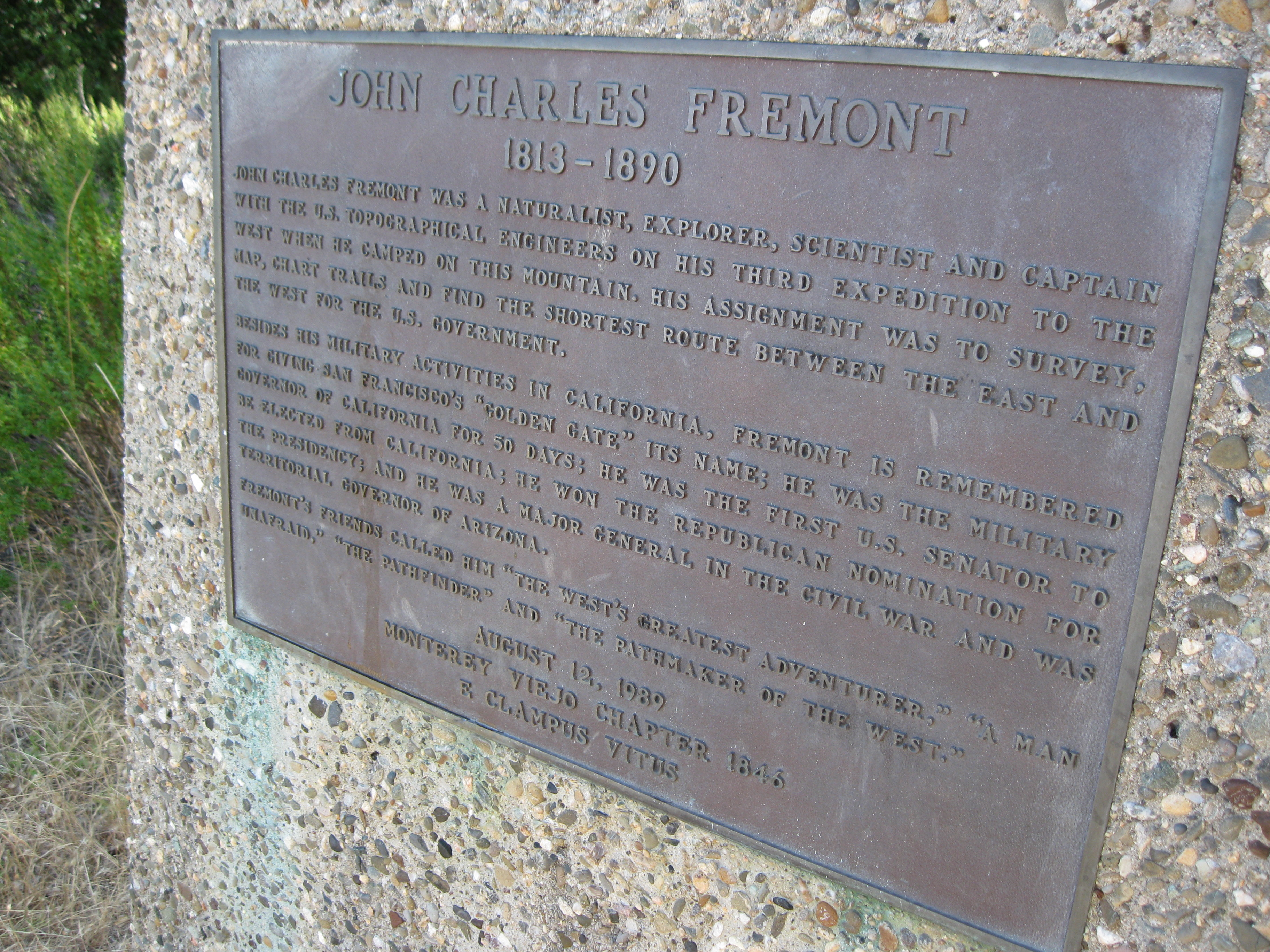 Fremont Peak Plaque erected 1989 by E Clampus Vitus.